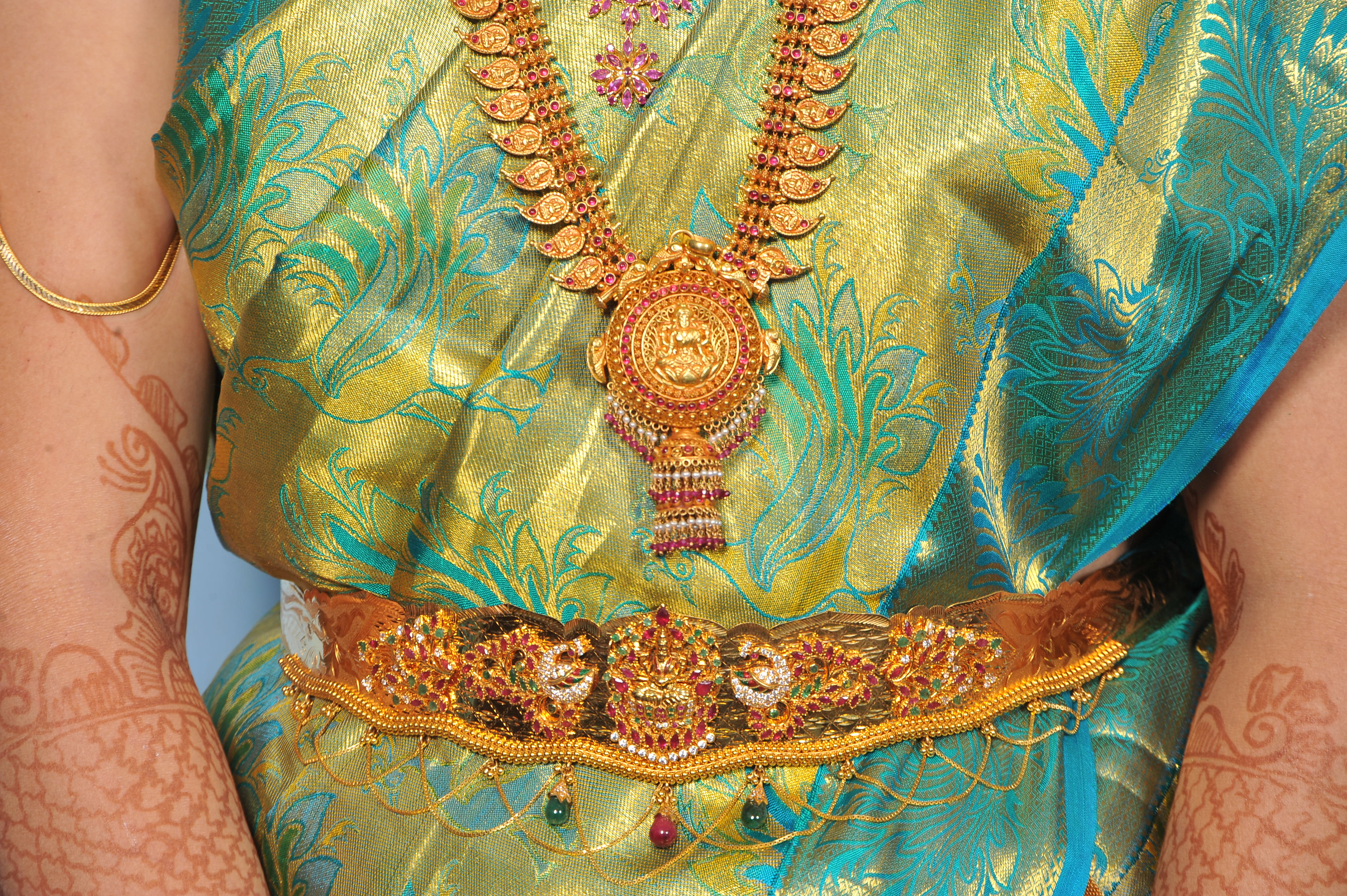 this is the image of a bride wearing vaddanam